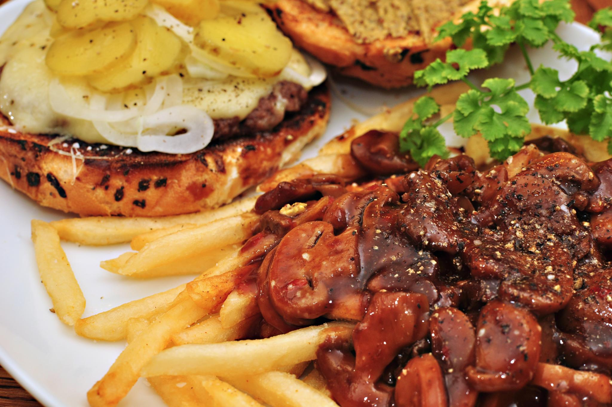 French fries smothered with mushroom gravy, with a hamburger